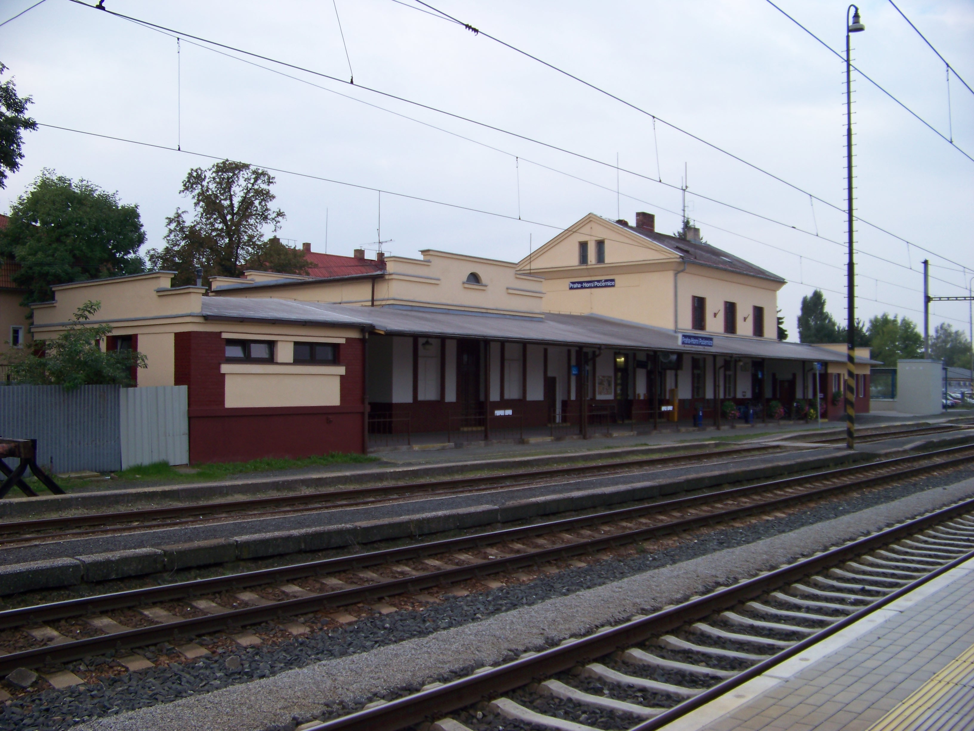 Prague-Horní Počernice, Czech Republic. Train station Praha-Horní Počernice.